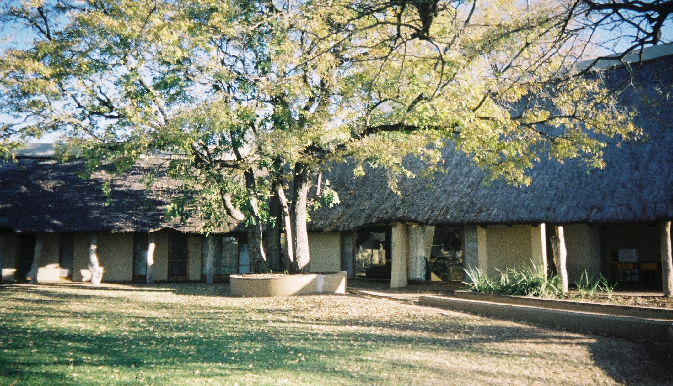 Taken by Sam Stanton-Reid - Waterkant guest house at Skukuza in Kruger National Park